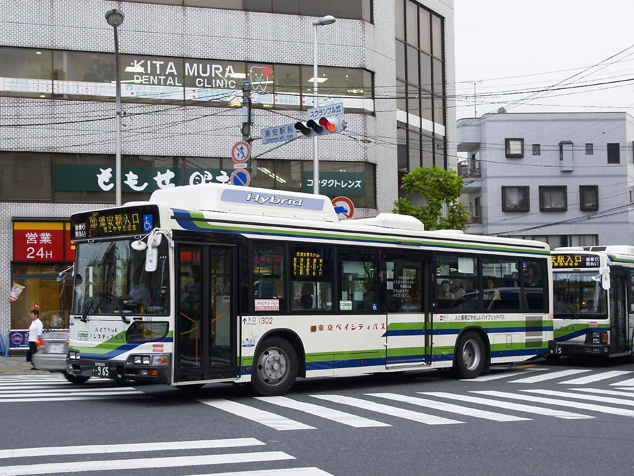 Hino Blue Ribbon City Hybrid (BJG-HU8JMFP) for Tokyo Bay City Kotsu. License plate: CBN200 KA-965 Place: Nekozane, Urayasu city, Chiba Japan 東京ベイシティ交通の日野ブルーリボンシティハイブリッド(BJG-HU8JMFP)。2007年に2台が導入された。 登録番号：習志野200か・965 撮影地：千葉県浦安市猫実・東京メトロ浦安駅付近